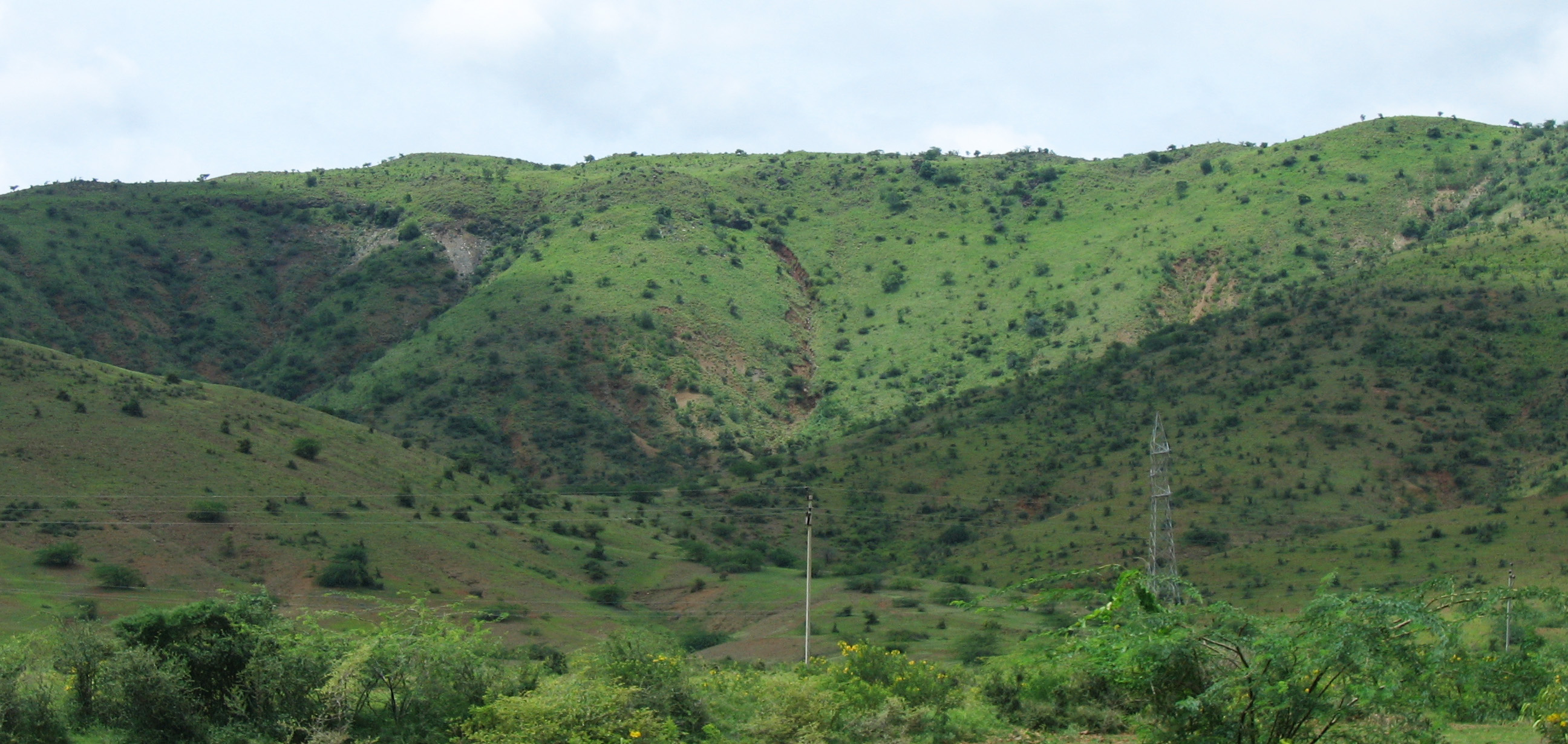 Andhra Pradesh - Landscapes from Andhra Pradesh, views from Indias South Central Railway